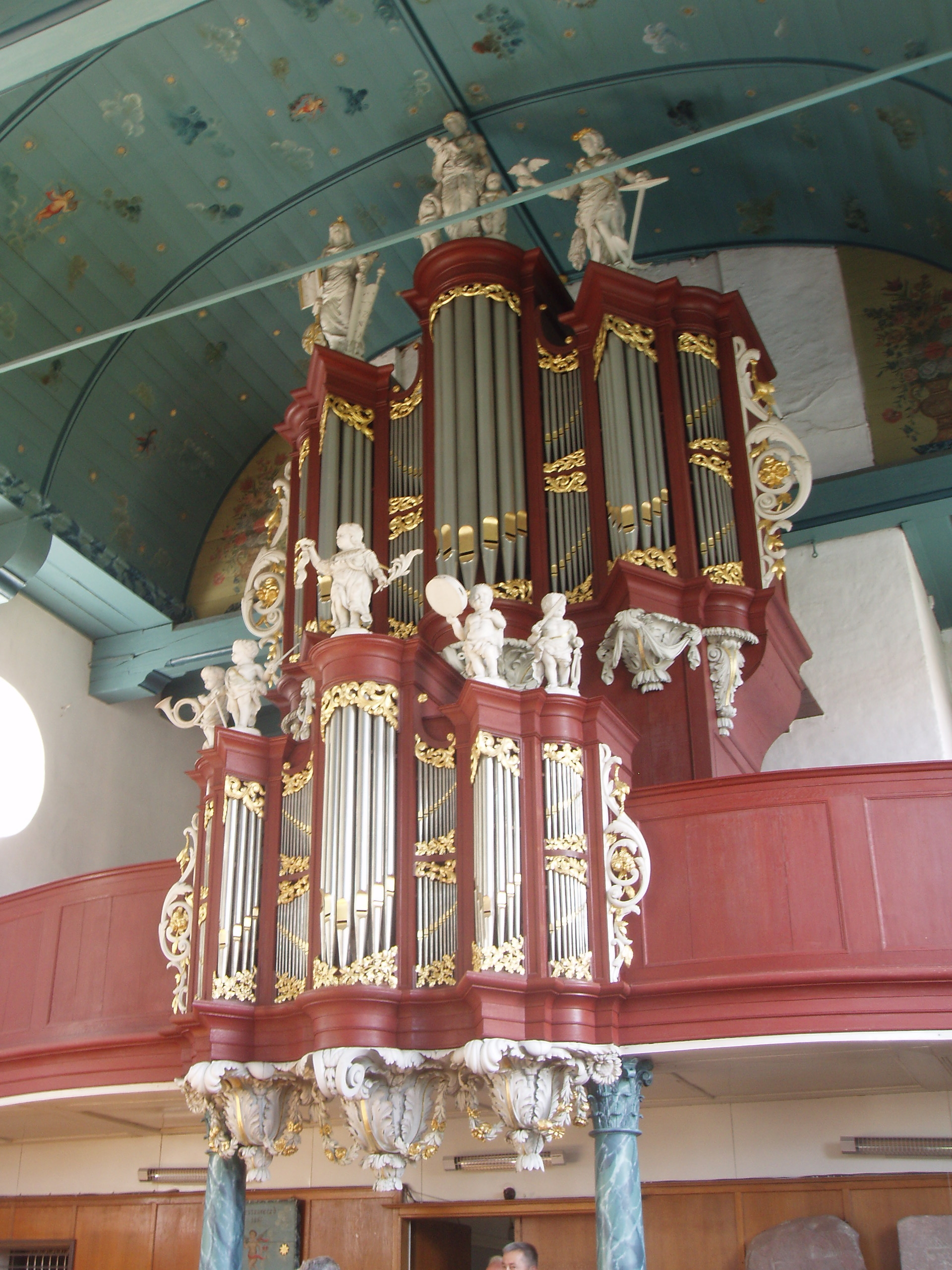 Lambertus van Dam 1779